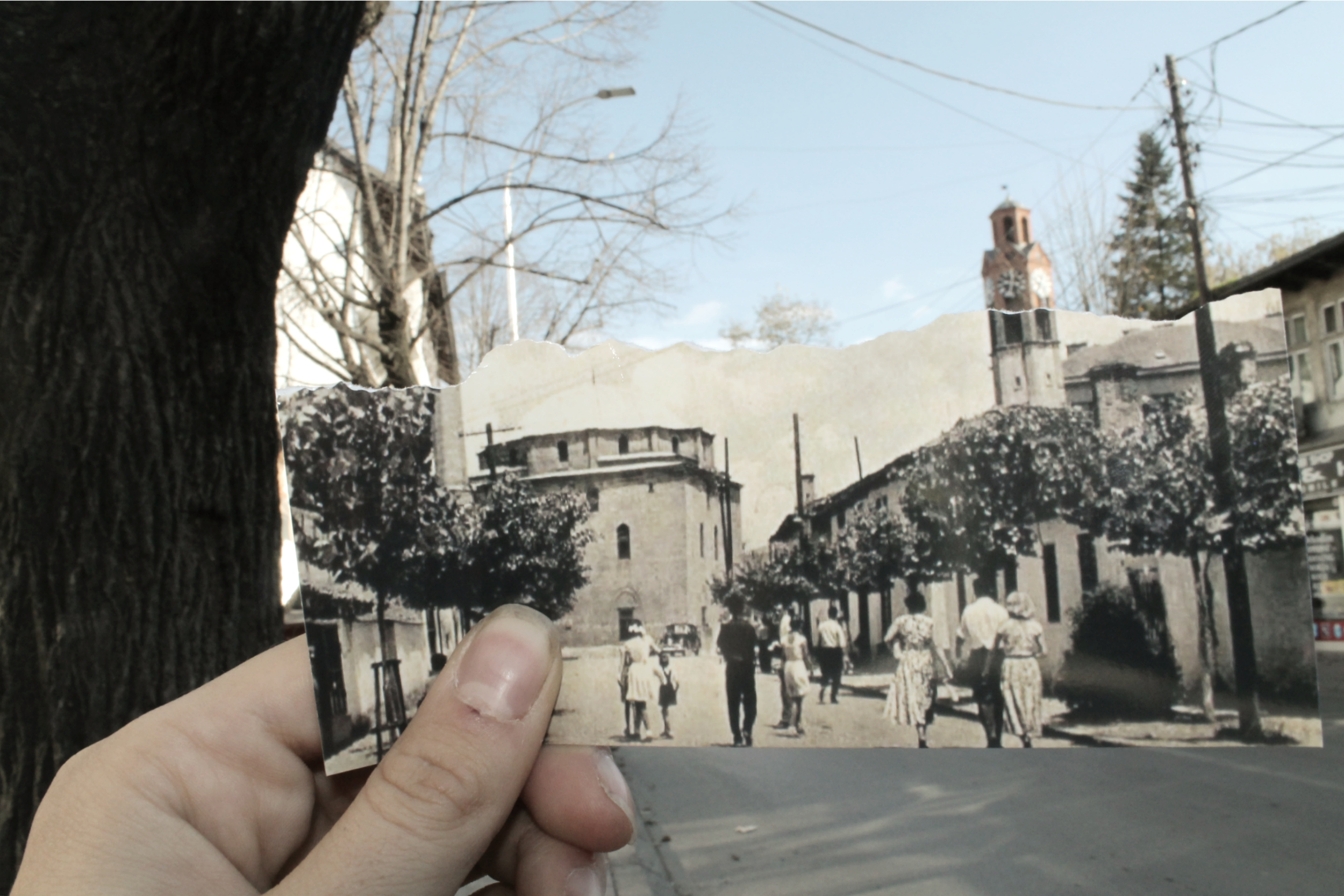 This Picture is a merge of two different time periods in Prishtina. It displays changes that have been made such as the growth of urbanism and the decreasing of pedestrian movement; and at the same time it shows that culutral and historical buildings have remained the same and have been protected.